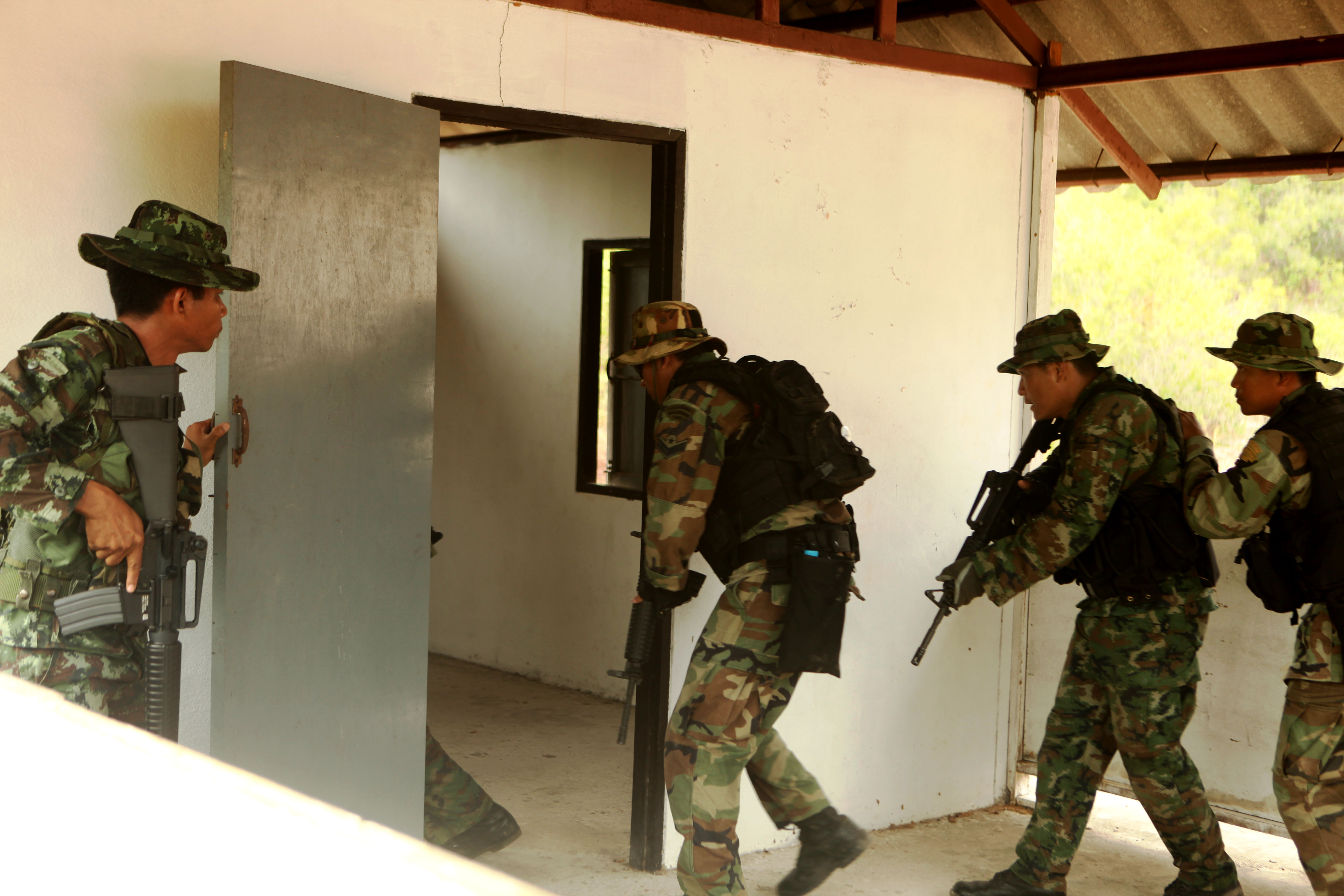 Royal Thai Special Forces clear a building during a mock helicopter raid in support of Cobra Gold 2011, Feb. 13. Royal Thai military and Marines with the 31st Marine Expeditionary Unit, 3rd Marine Expeditionary Brigade, came together to conduct the event. Cobra Gold 2011 is the 30th iteration of the exercise and has become one of the largest land-based, joint, combined military training exercises in the world.